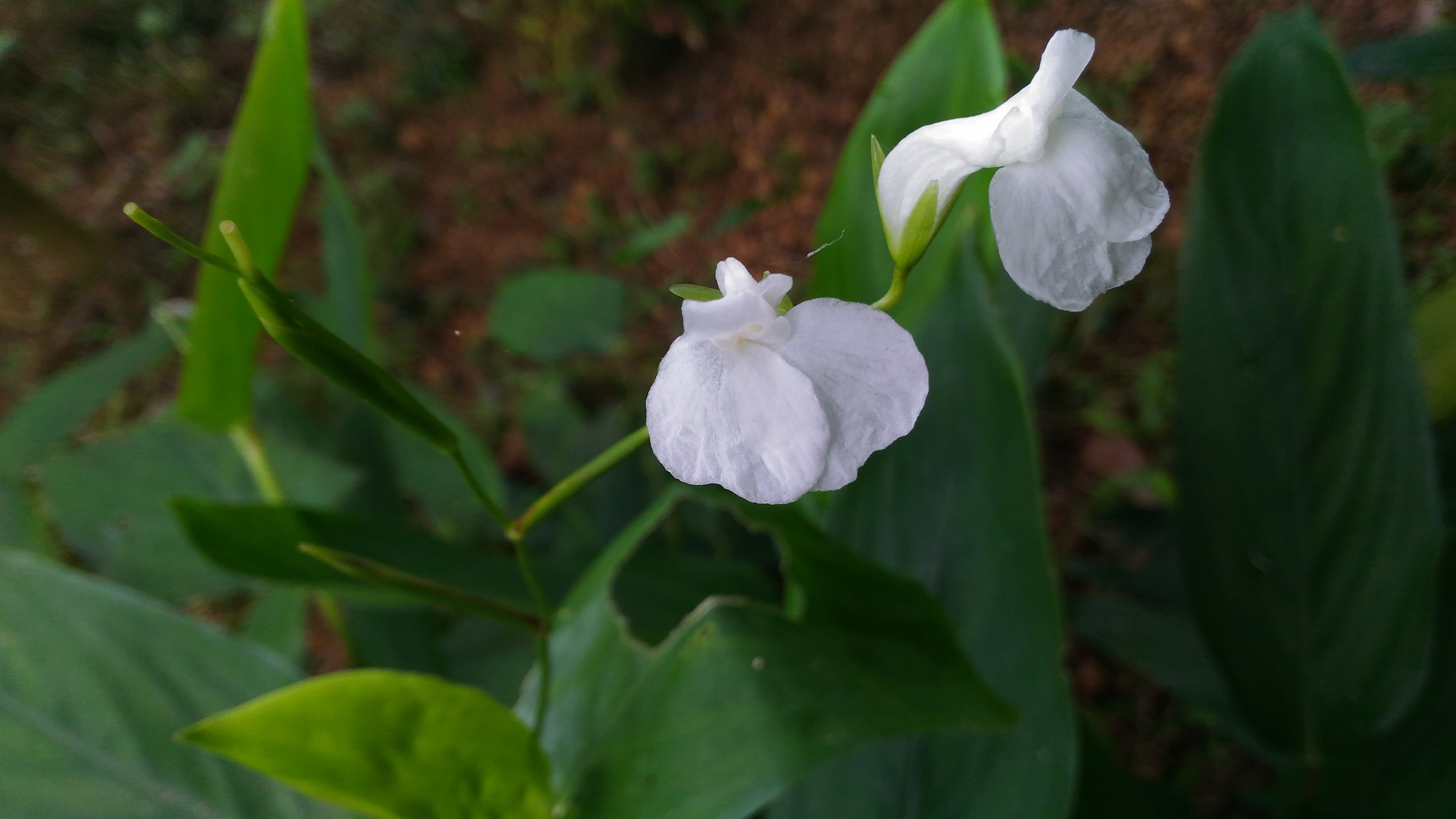 arrowrootഃ_plant_flower